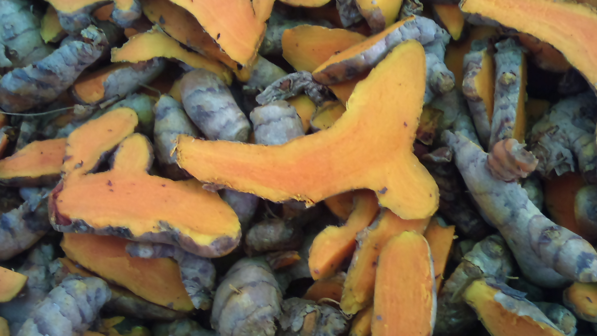 Turmeric boiled and sliced